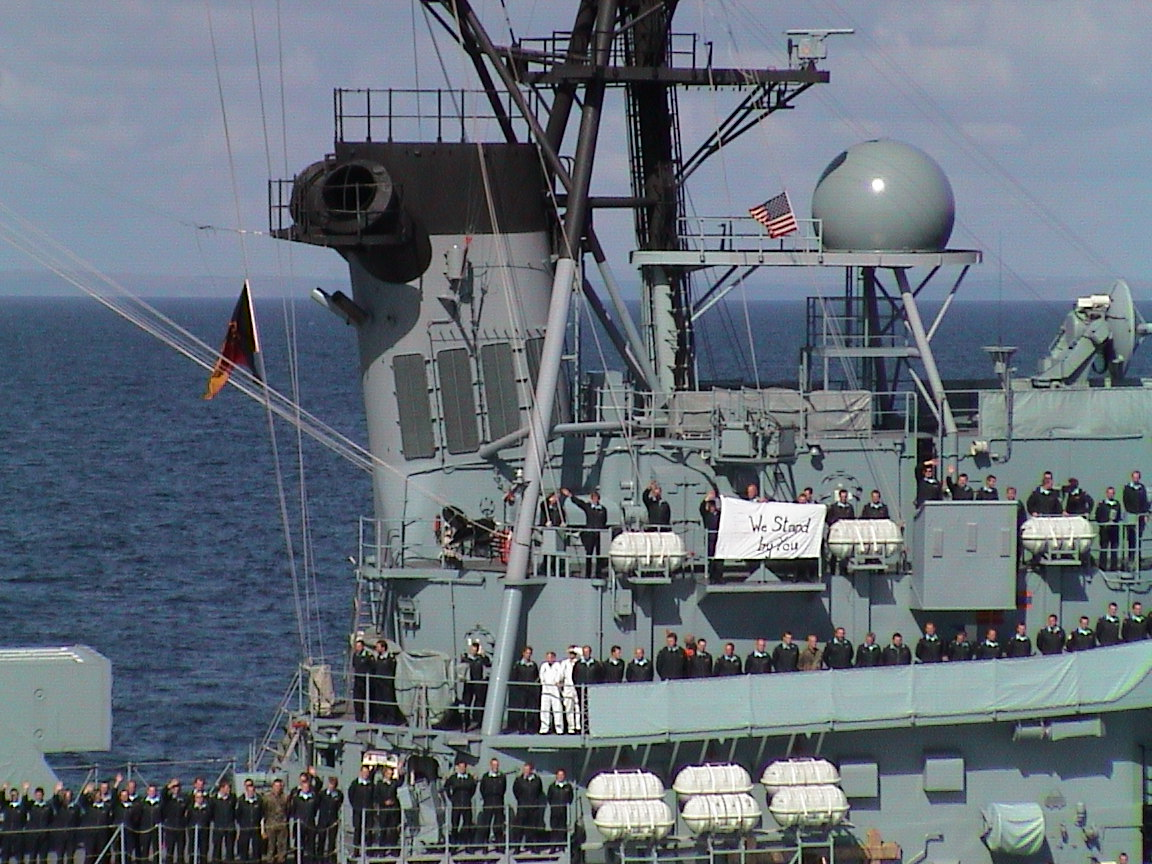 The officers and crew of the German destroyer Lütjens (D-185), say goodbye and render honors to USS Winston S. Churchill (DDG-81) by lining the rails in their Dress Blues as they came alongside the ship at sea. The German Sailors, who had become good friends with many of the crew on board Churchill, were flying an American flag at half mast and had hung a homemade banner that read, "We Stand By You." The ships had been conducting joint exercises off the coast of the United Kingdom prior to the terrorist attack on the United States on September 11th.